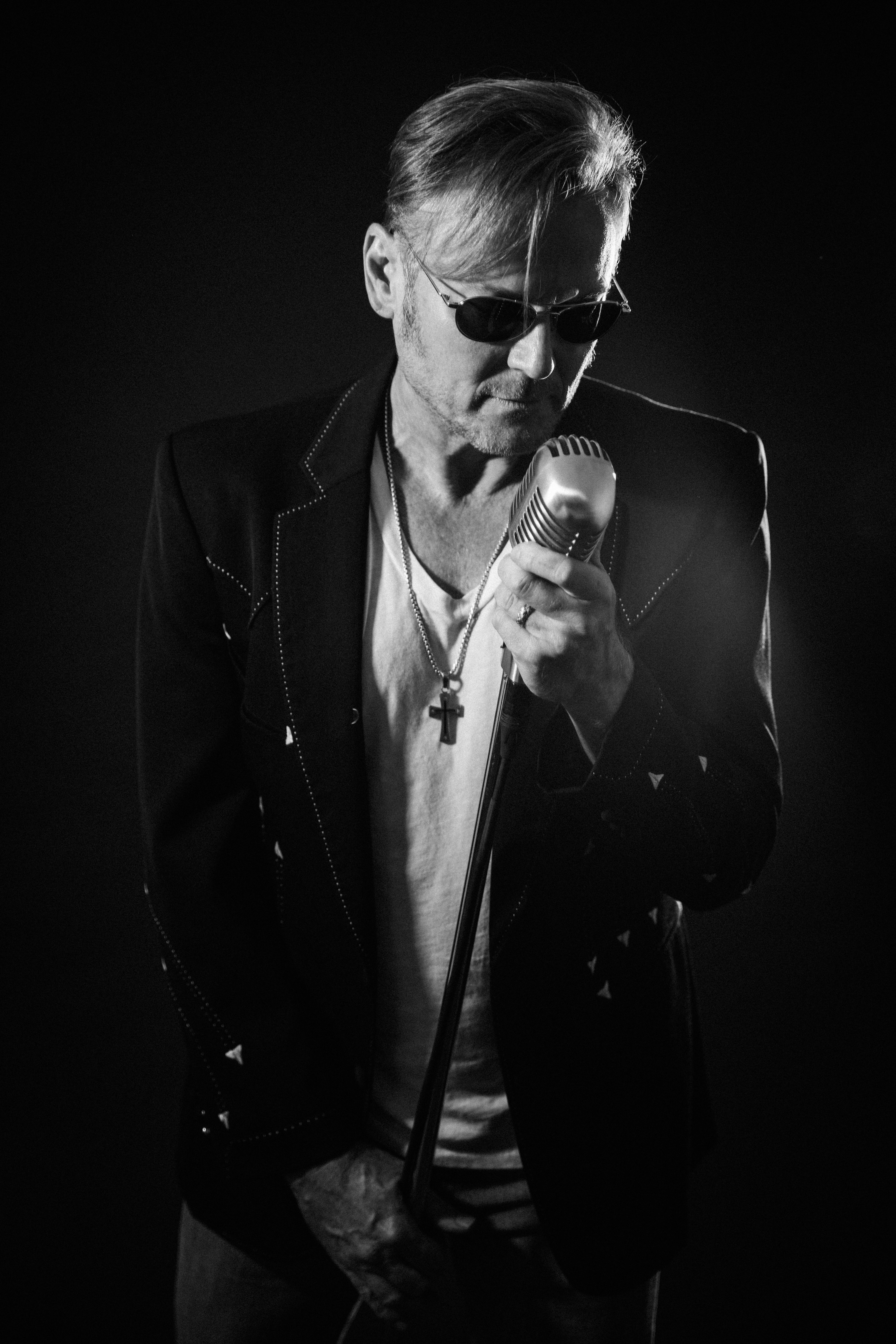 terry